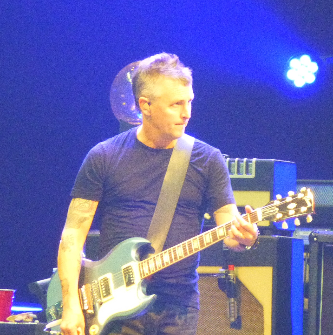 Mike McCready of Pearl Jam at the Barclays Center, Brooklyn on October 18, 2013